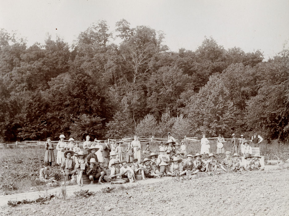 Strawberry Pickers, Ruskin Cooperative Association Papers, 1897